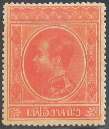 Thai Postage Stamp First Issue. 1 Fuang. Not issued together with other denominations. Sold to public for collection in 1900 under King Rama V reign